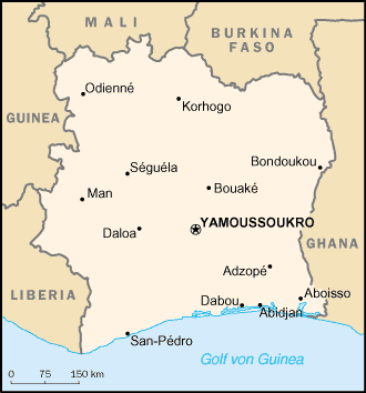 Map of Côte d'Ivoire from CIA World Fact Book